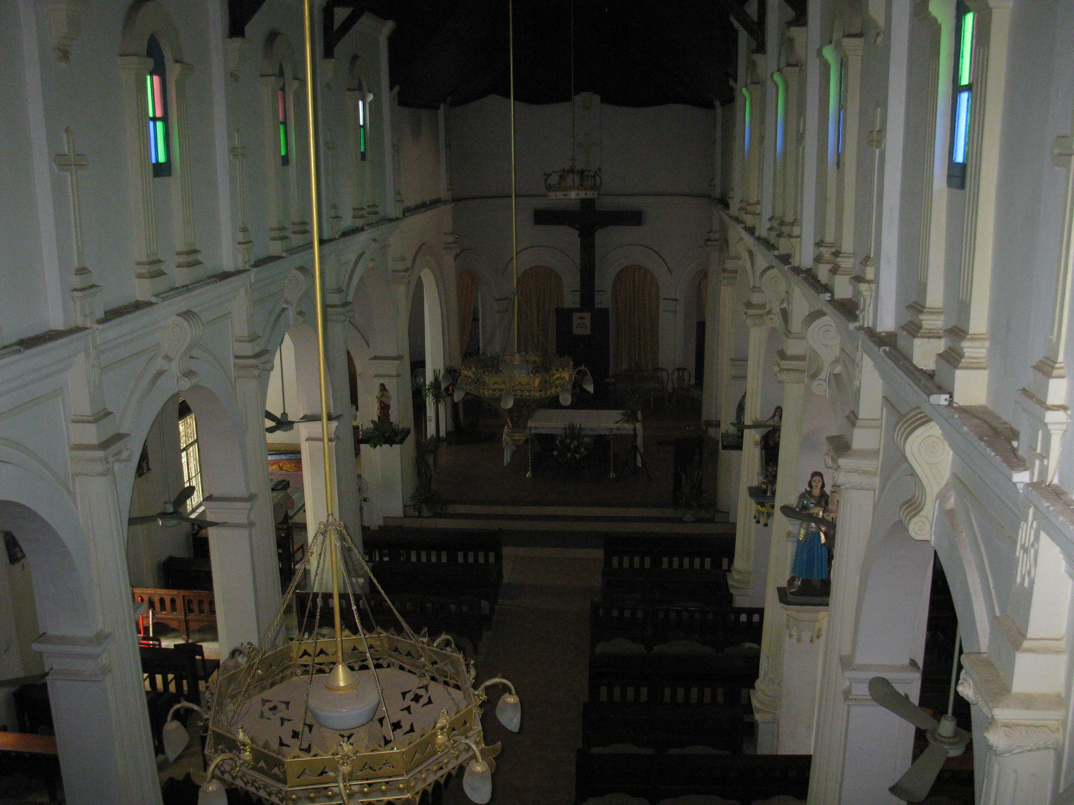 Catholic Church "Sacre Coeur" (built 1928), Vientiane, Laos.